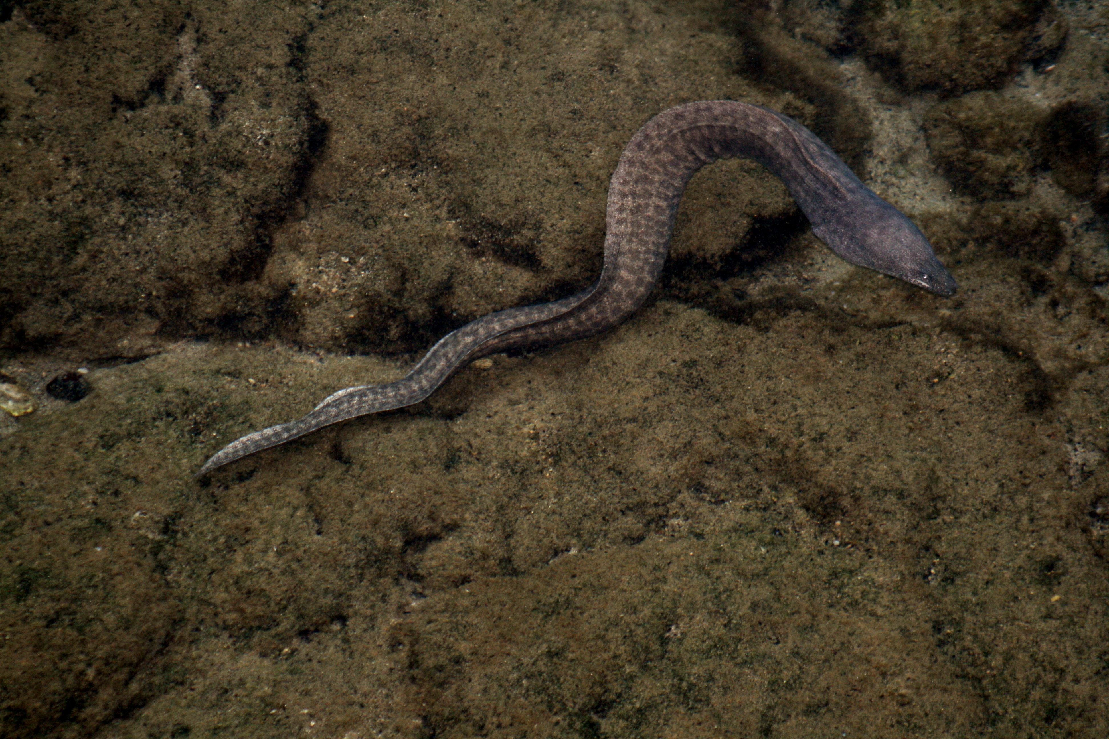 Moray eel ((Undulated Moray eel (Gymnothorax undulatus) in Kona, Hawaii